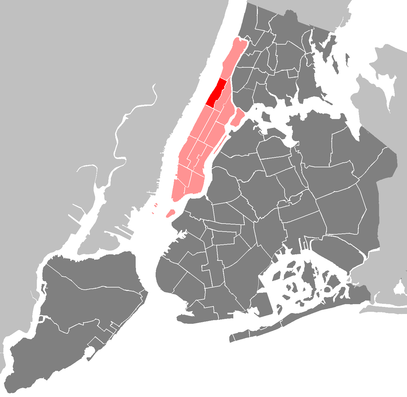 Category:Maps of New York City: New York City - Manhattan - Community Board 9.PNG